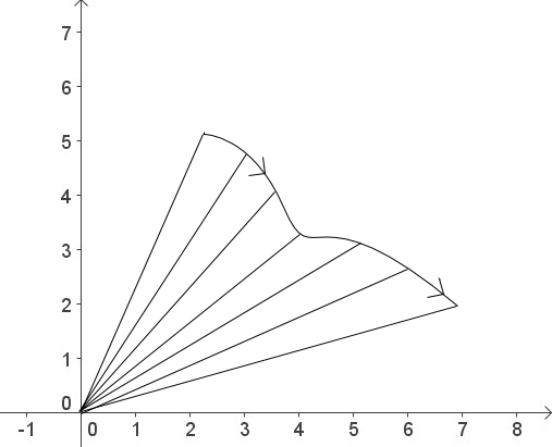 illustration for leibniz's sector formula